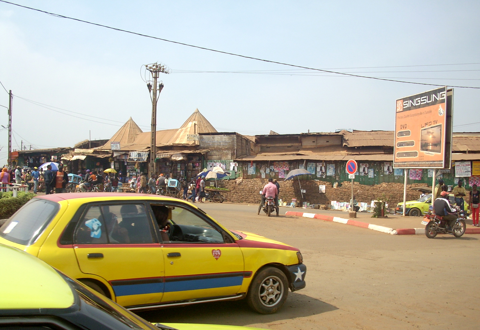 market - Bafoussam - Cameroon